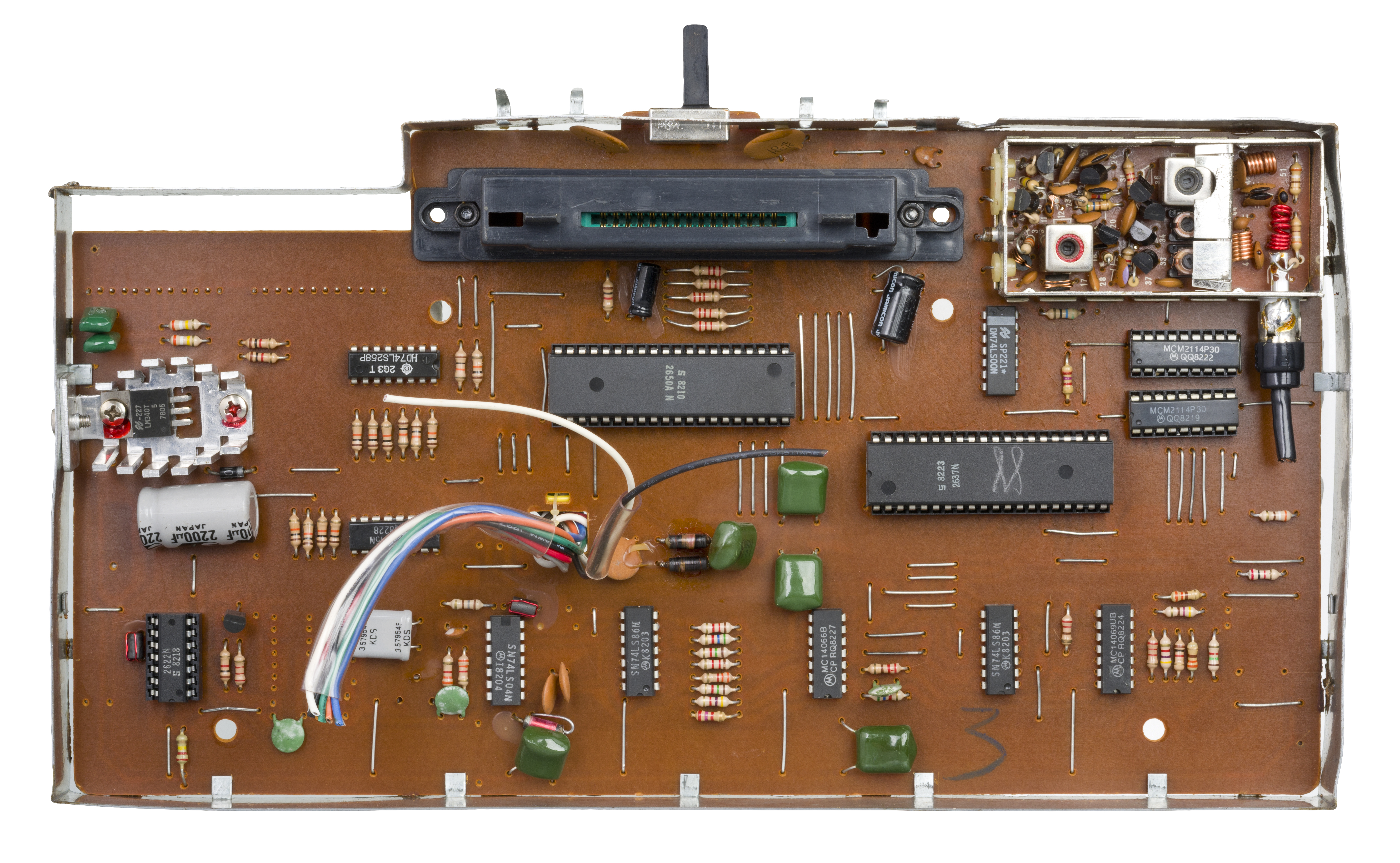 The motherboard of the Emerson Arcadia 2001, a short-lived 2nd generation game console released by Emerson Radio in 1982.